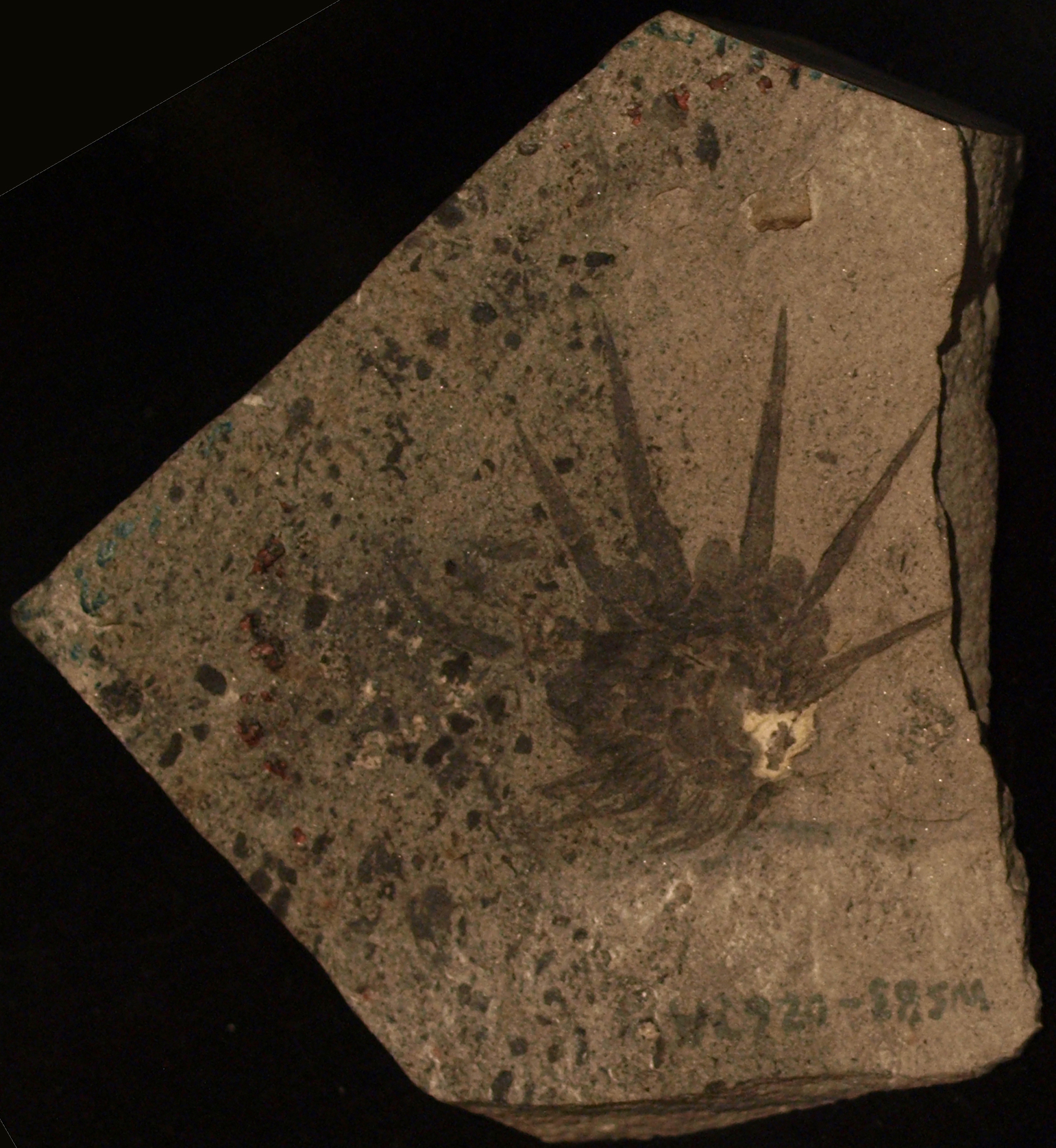 Specimen of Wiwaxia Corrugata on display in the Royal Ontario Museum, Toronto.